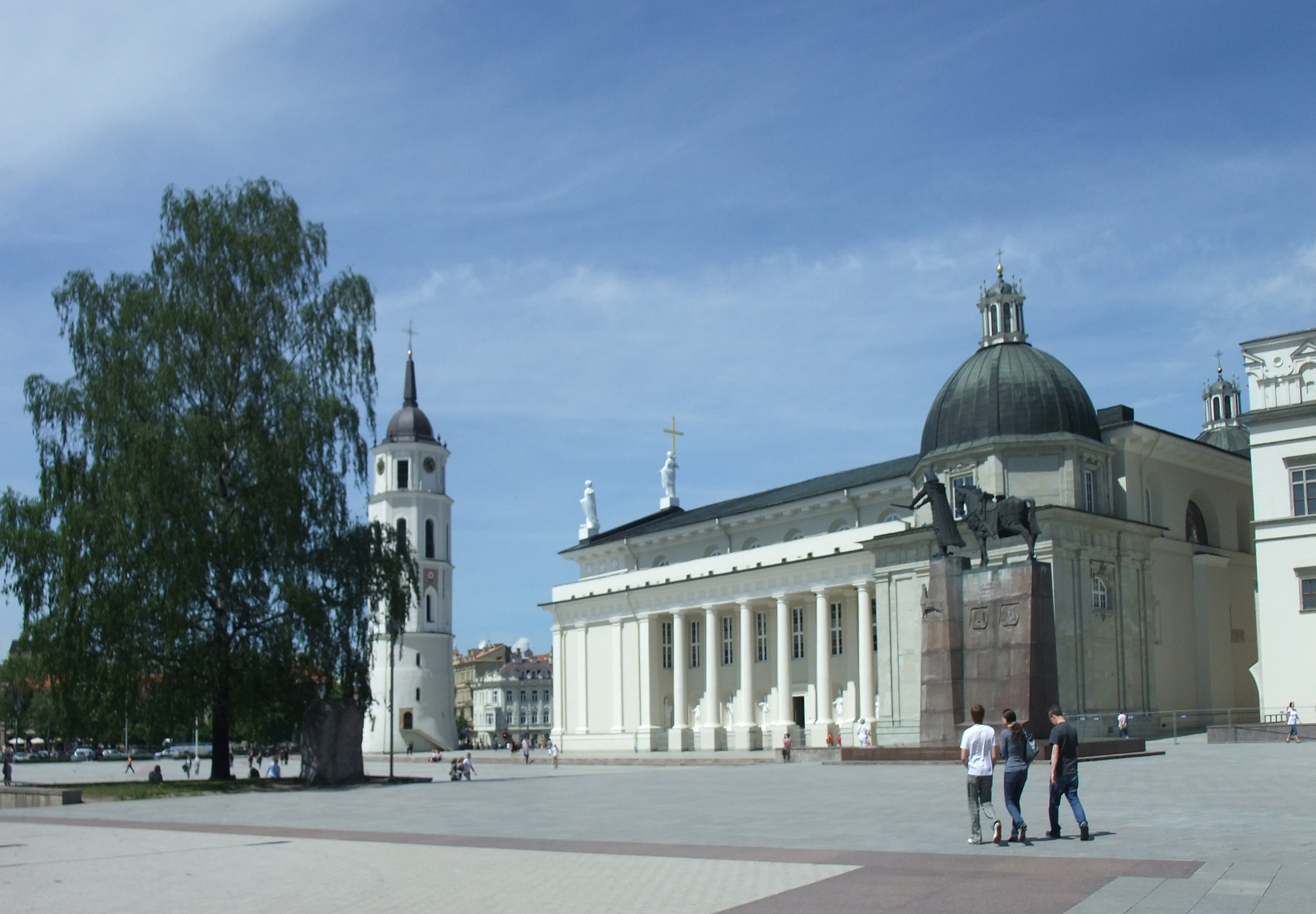 Cathedral of Vilnius, Lithuania